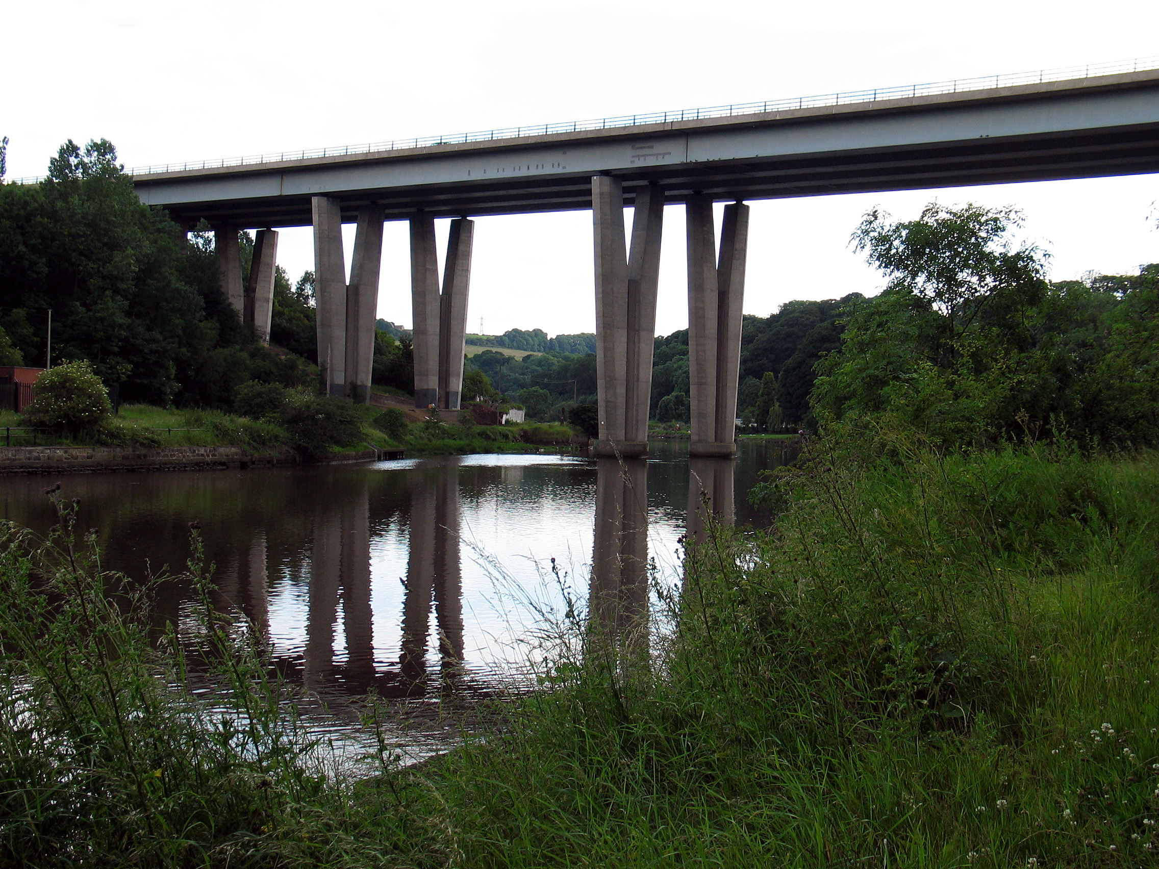 A19 Viaduct at Hylton, Sunderland, over the River Wear, taken by Peter Hughes on Monday 2 July 2007.